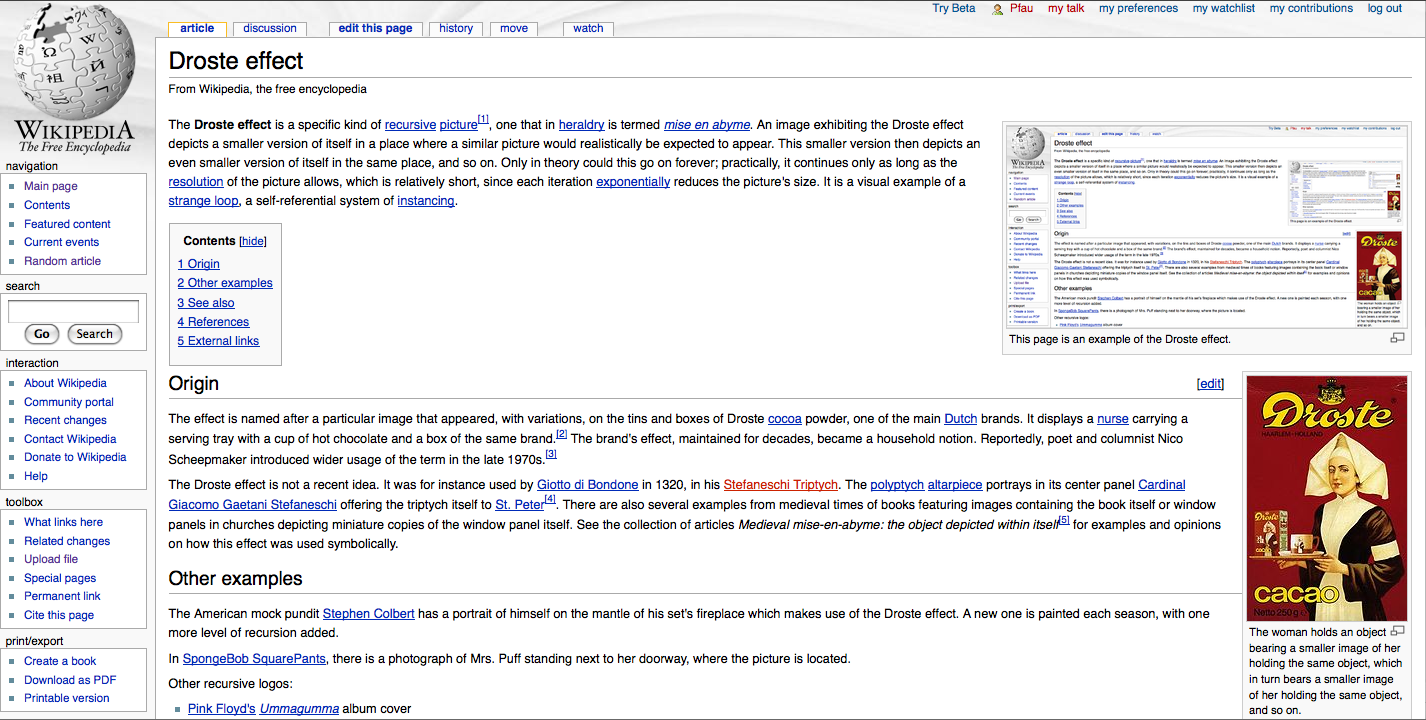 Fourth in a series of screenshots of the Wikipedia page on the Droste effect.